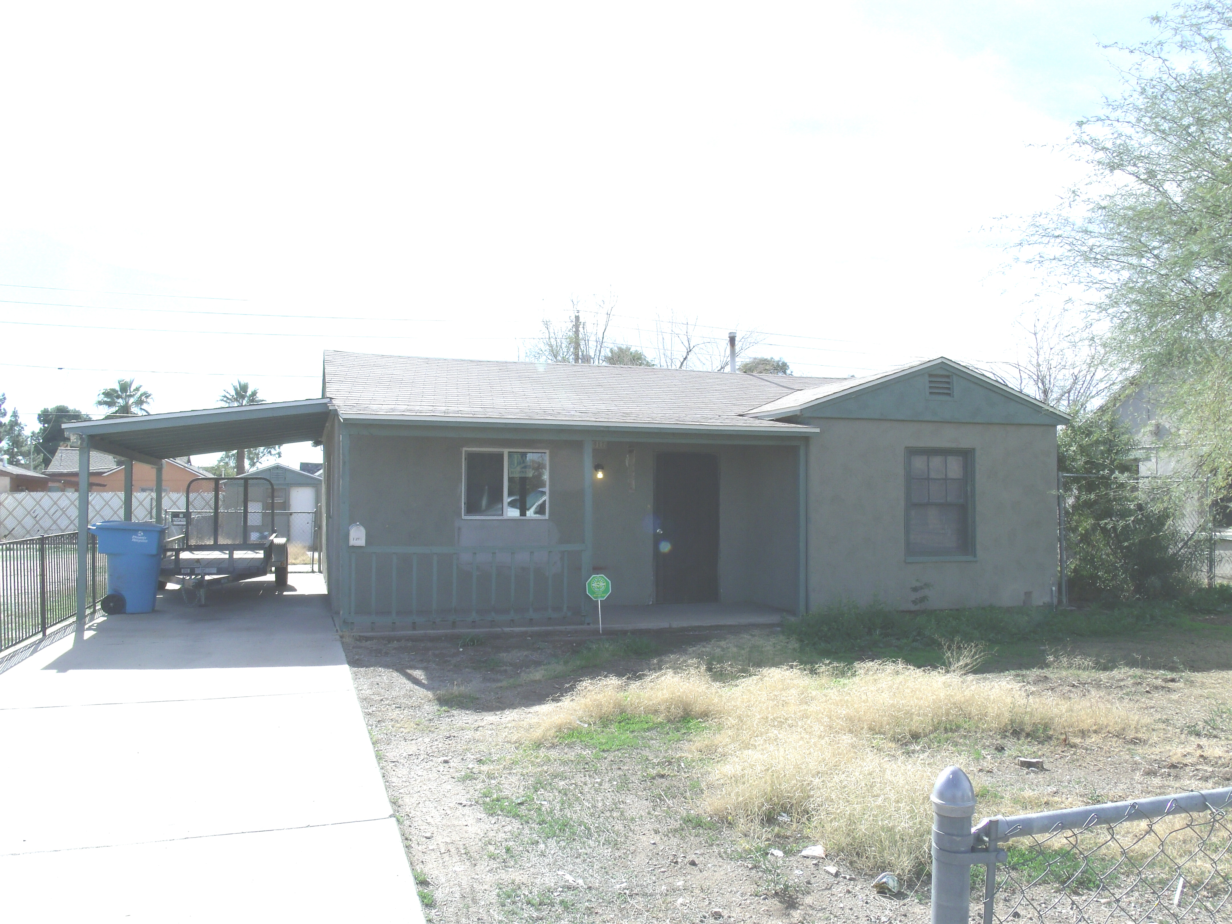 The Valdemar Cordova House built in 1930 and located at 1917 W Monte Vista in Phoenix, Az. Cordova served as the first Mexican American Maricopa County Superior Court judge, from 1965 to 1967, and then appointed to a second term in 1976 by Governor Raul Castro. This property is recognized as historic by the Hispanic American Historic Property Survey.